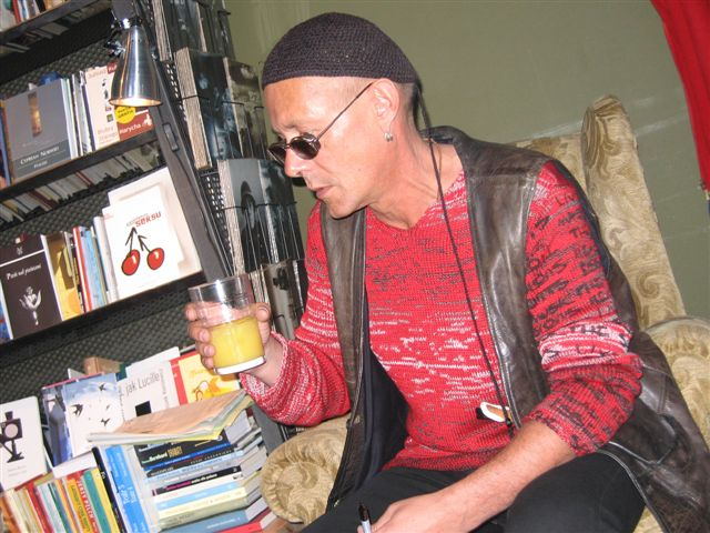 Mariusz Wilk (b. 1955), Polish writer